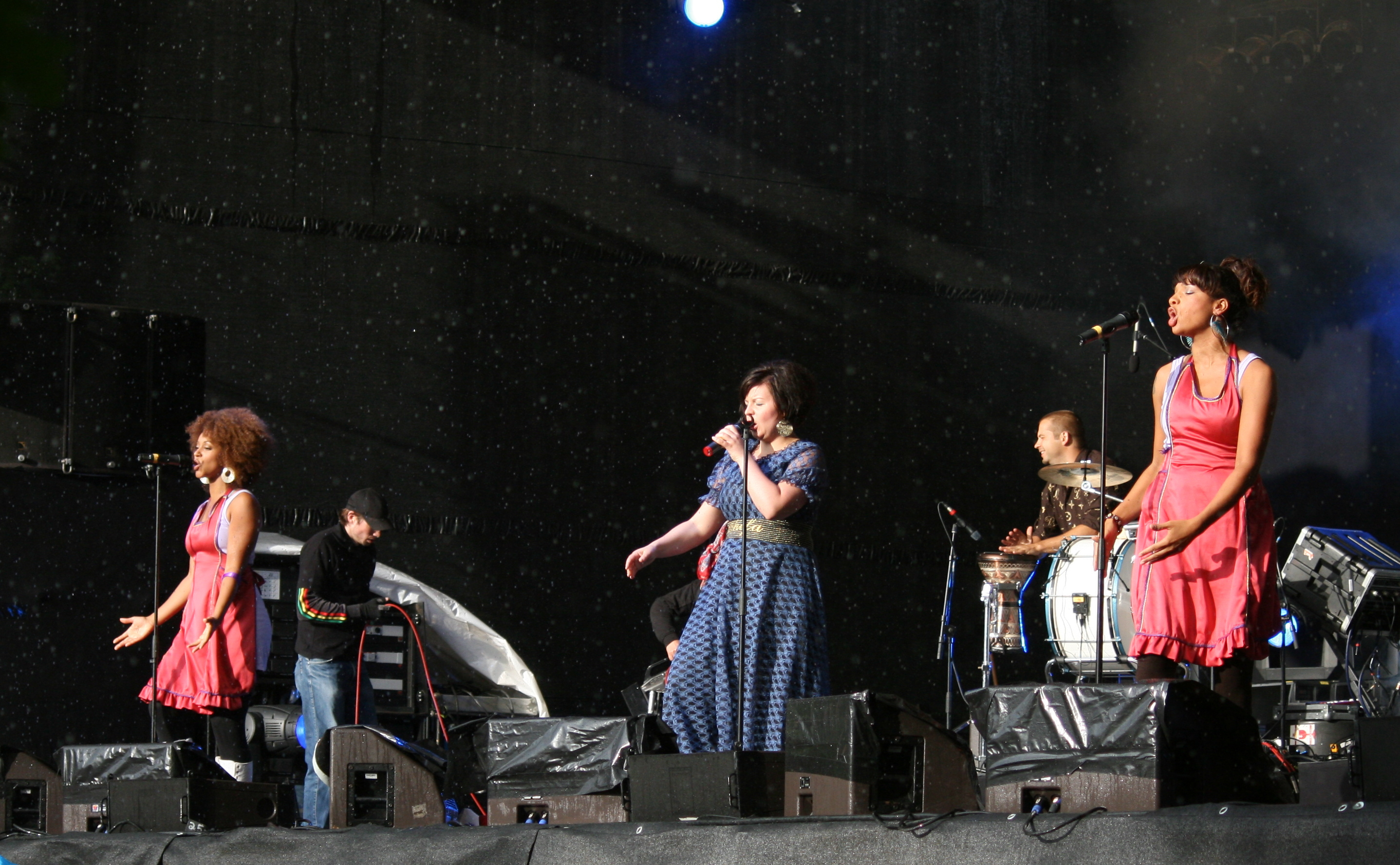 Miss Platnum, a Romanian singer, songwriter and musician, at the Berlin 08 festival